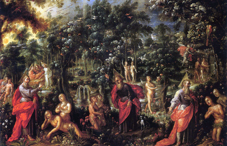 Adán y Eva en el Paraíso